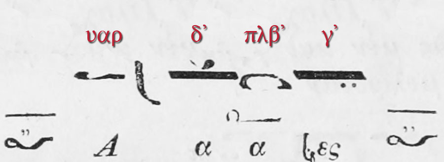 Medieval enechema of echos varys